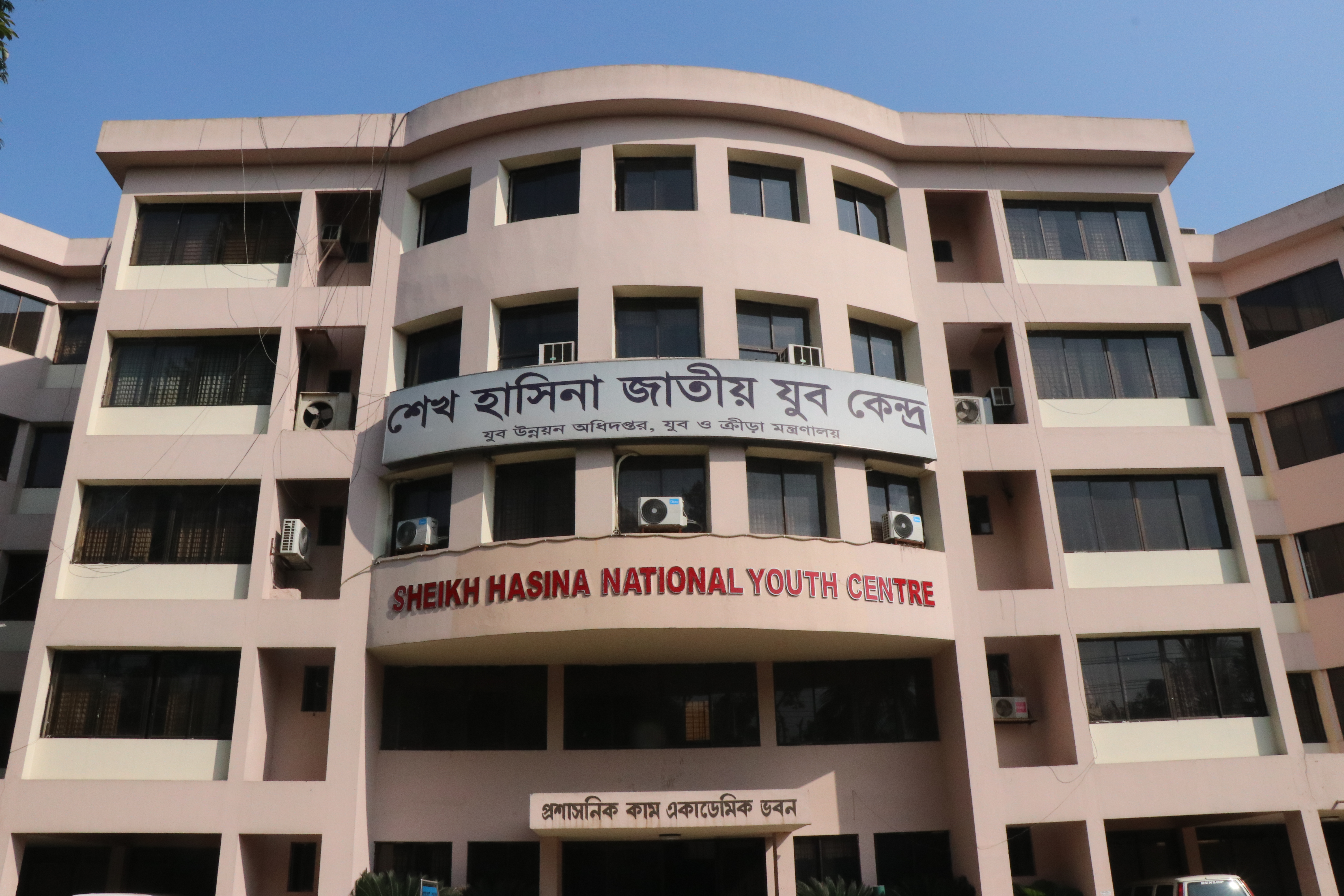 Sheikh Hasina National Youth Center academic building